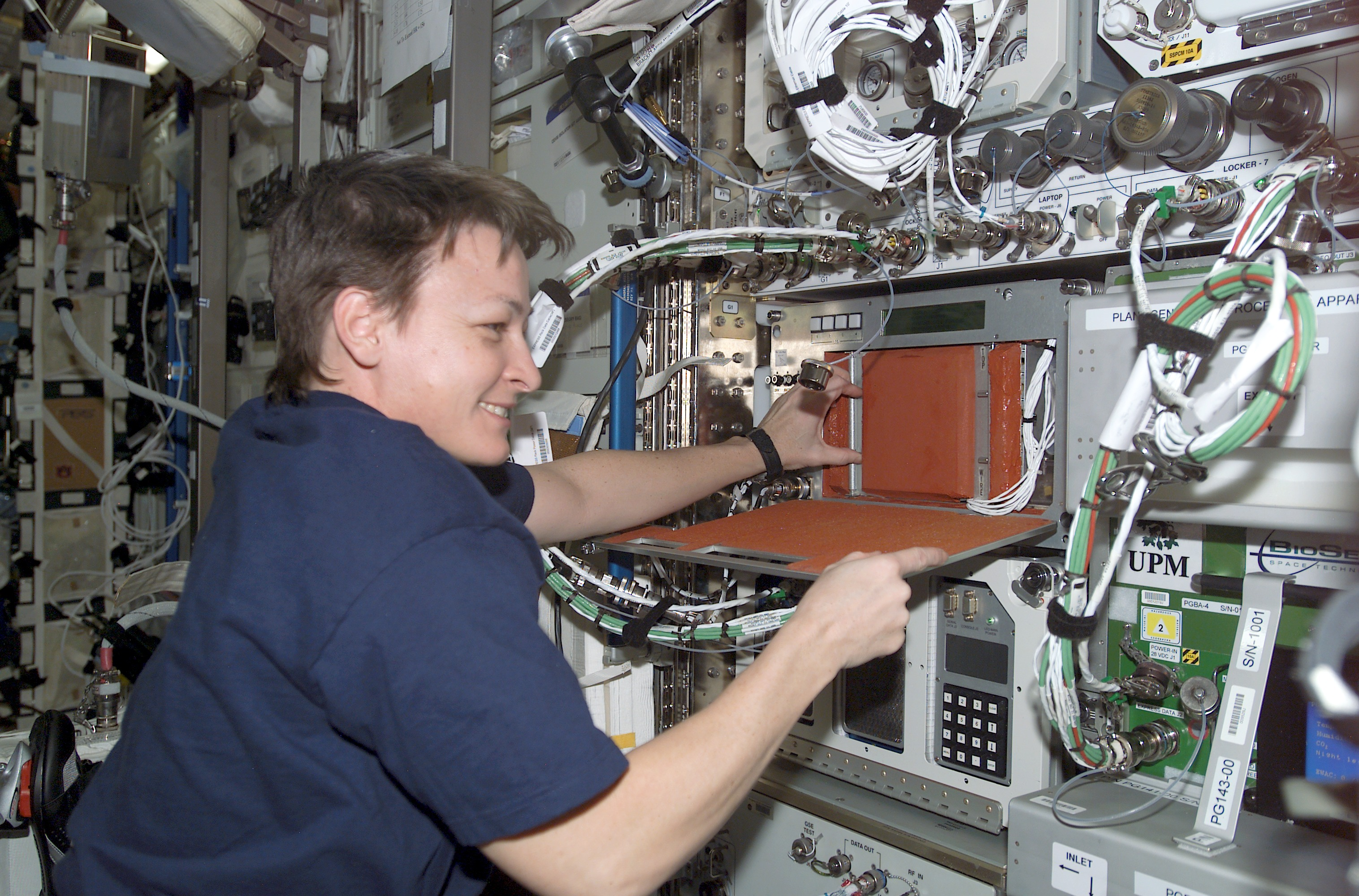 Astronaut Peggy A. Whitson, Expedition Five science officer, works with an experiment in the Destiny laboratory as her tenure on board the International Space Station (ISS) winds down. Protein Crystal Growth - Single Locker Thermal Enclosure System (PCG-STES) supports a series of investigations to grow protein crystals in microgravity. Multiple independent and collaborating principal investigators contributed samples and evaluated the technology for crystal growth in space.